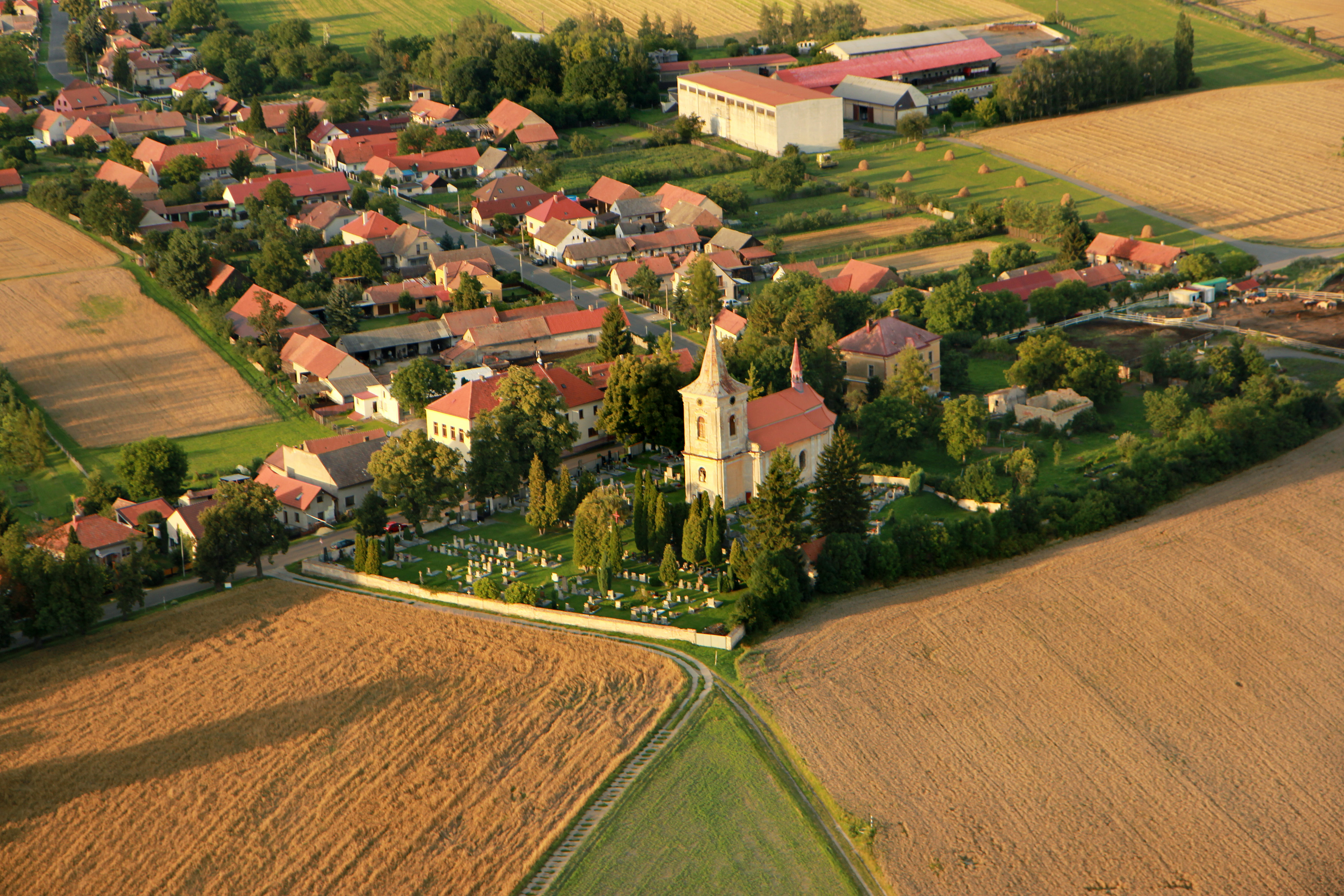 Saint Wenceslas church in Hrubý Jeseník village, Czech Republic